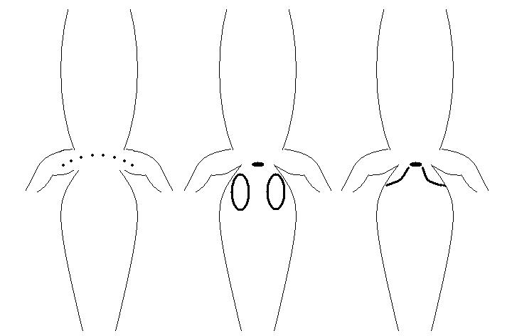 Gecko's sexual dimorphism